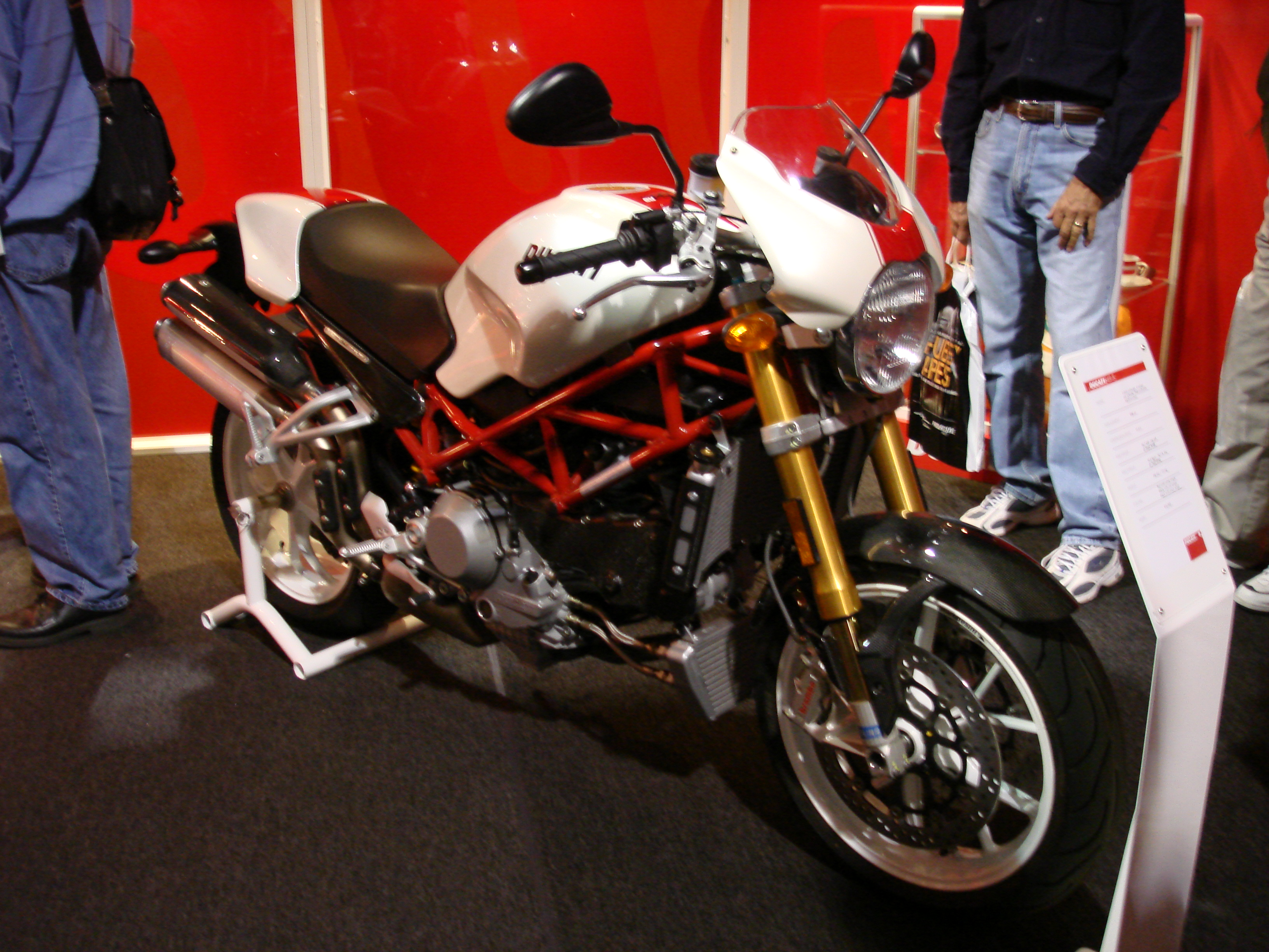 2007 SR4 Ducati SR4 Monster on display at the 2006 International Motorcycle Show in Long Beach, CA. Camera used was a Sony Cyber-shot DSC-W100.